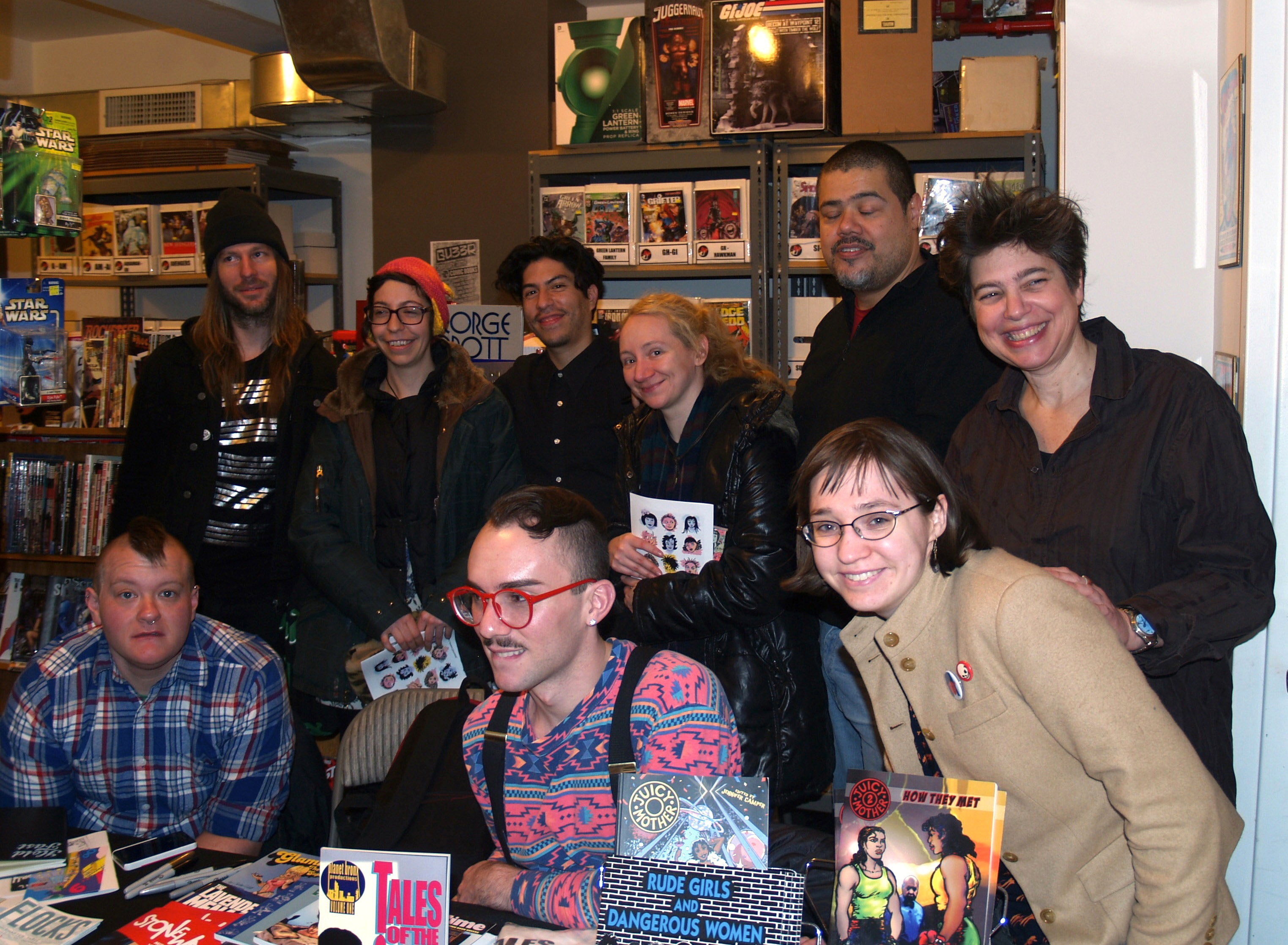 Comics creators at a February 28, 2014 signing at Jim Hanley's Universe in Manhattan for Qu33r, an LGBT comics comics anthology. Behind the table from left to right, back row, are Sabin Calvert, Katie Fricas, Carlo Quispe, Abby Denson, Ivan Velez, Jr. and Jennifer Camper. From left to right, front row, are L. Nichols, Sasha Hedges Steinberg and Laurel Lynn Leake. This photo was created by Luigi Novi. It is not in the public domain, and use of this file outside of the licensing terms is a copyright violation.